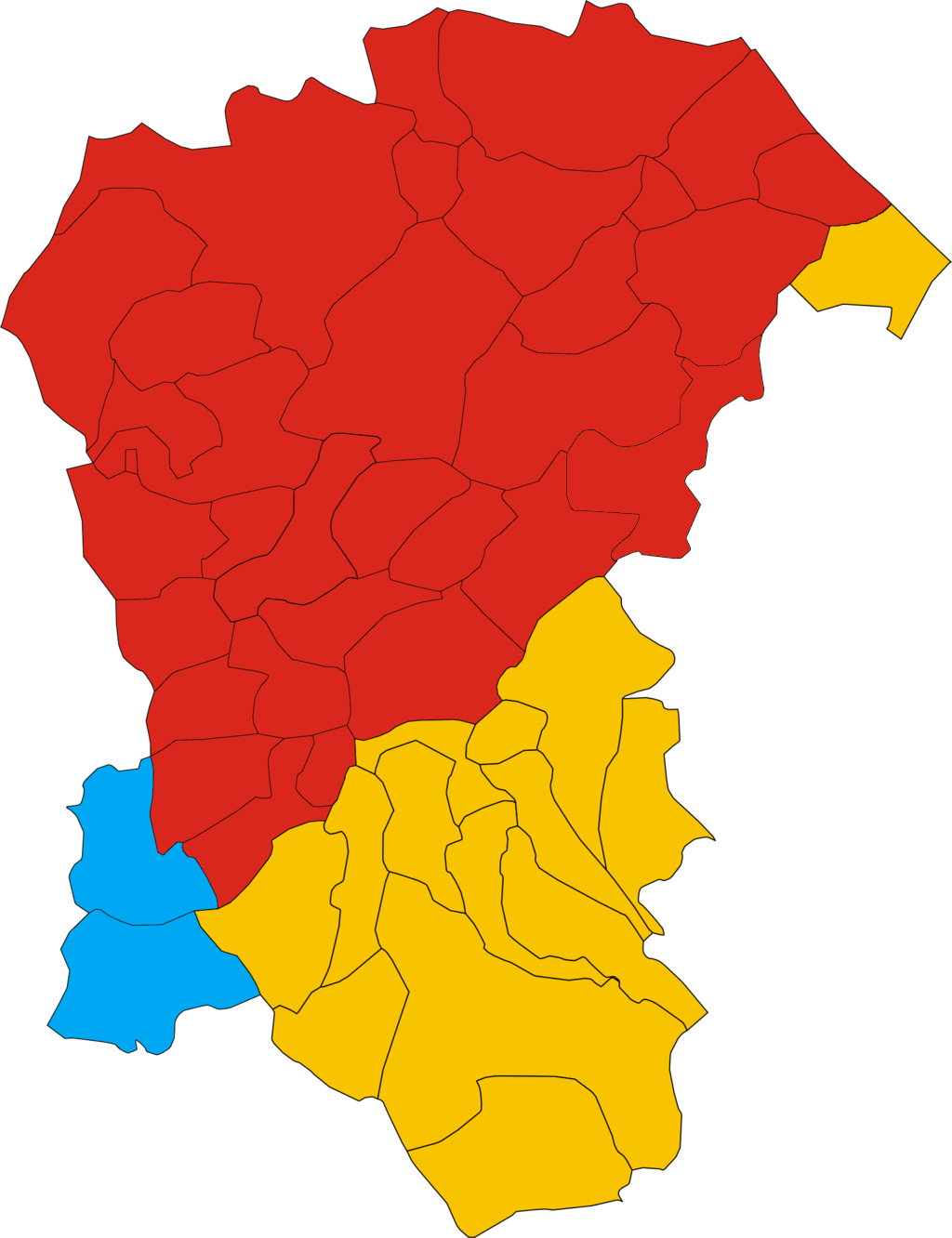 provincia di pescara